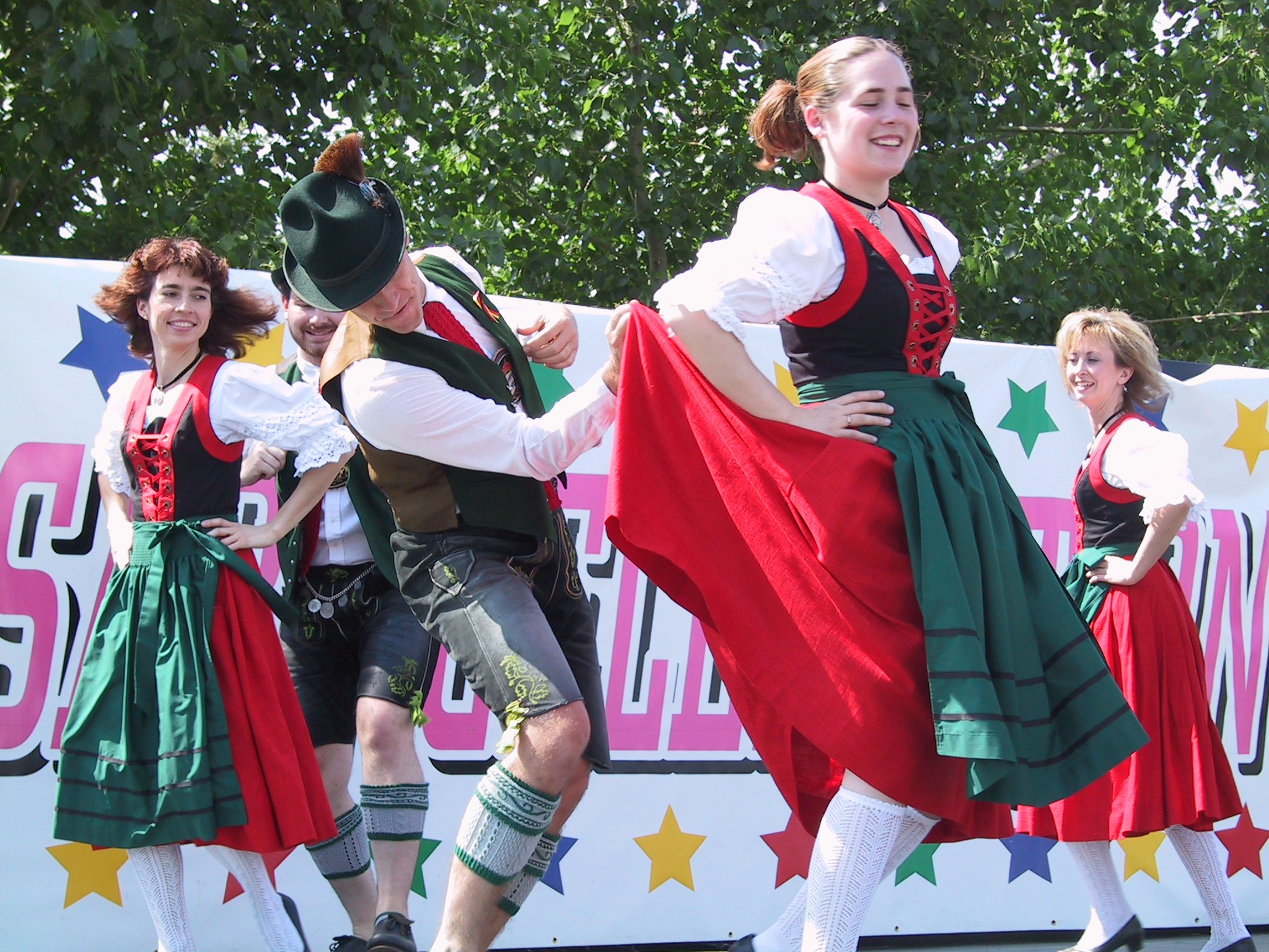 Traditional dancers in Bavarian Schuhplattlers of Edmonton